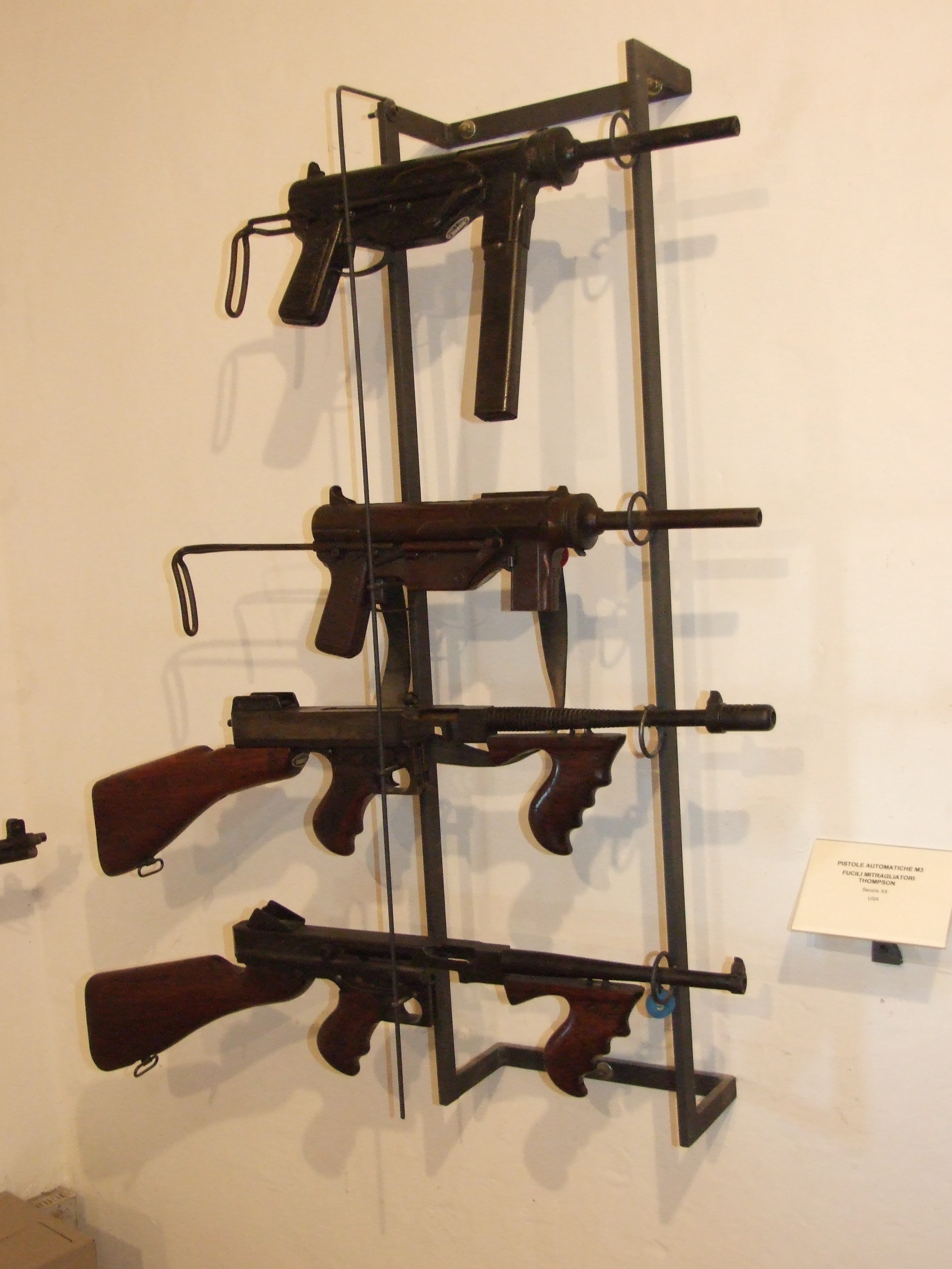 From the top: two M3 Grease guns, a Thompson M1928 and a Thompson M1 (maybe A1) with vertical foregrip, taken inside Forte di San Leo